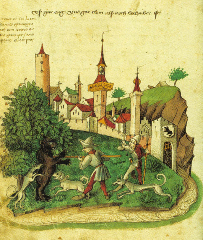 The founding history of Berne, as illustrated in the Tschachtlan chronicles: Duke Berchtold kills the bear. ZB Zürich MS. A 120, Abb. 2, S. 16.